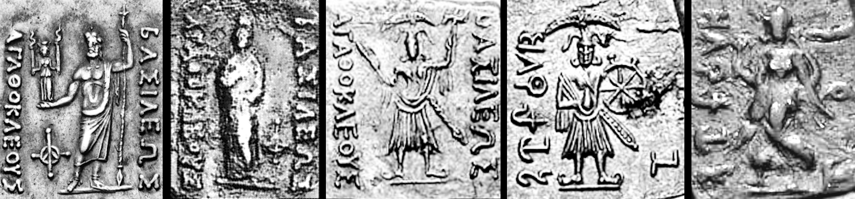 Deities on the coinage of Agathokles. The coinage of Agathocles (circa 180 BCE) incorporated the Brahmi script and several deities from India, which have been variously interpreted as Vishnu, Shiva, Vasudeva, Balarama or the Buddha.(see (in English) (1988) Alexander the Great and Bactria: The Formation of a Greek Frontier in Central Asia, Brill Archive ISBN: 9004086129. ) 1. Zeus holding Hecate and a scepter. 2. Divinity with a long coat (himation) with some volume on top of hair, partly folded arms and contrapposto. The attitude is similar to the Buddha of the Bimaran casket 3. Hindu god Balarama-Samkarshana with attributes 4. Hindu god Vasudeva-Krishna with attributes 5. Indian goddess Lakshmi.